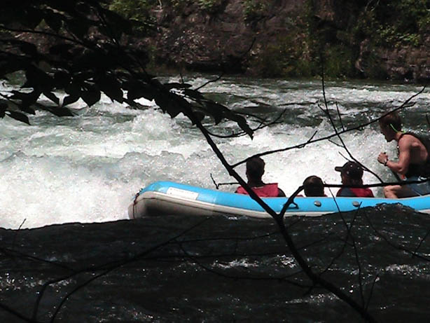 Upstream image of a guide in the Bee Cliff Rapids sliding his raft sideways into The Big Hole on the Watauga River, southeast of Elizabethton, Tennessee.